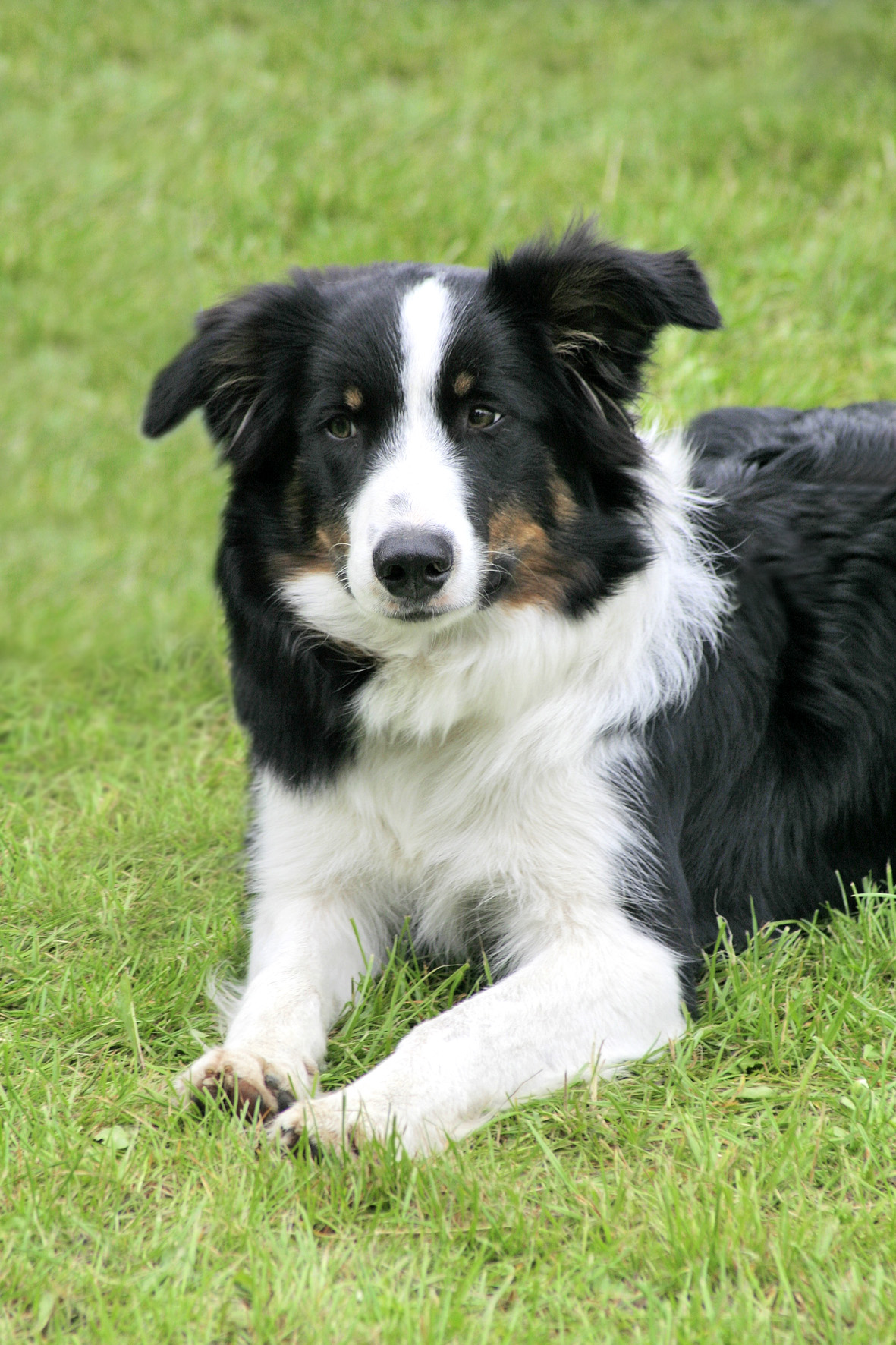 Border collie dog